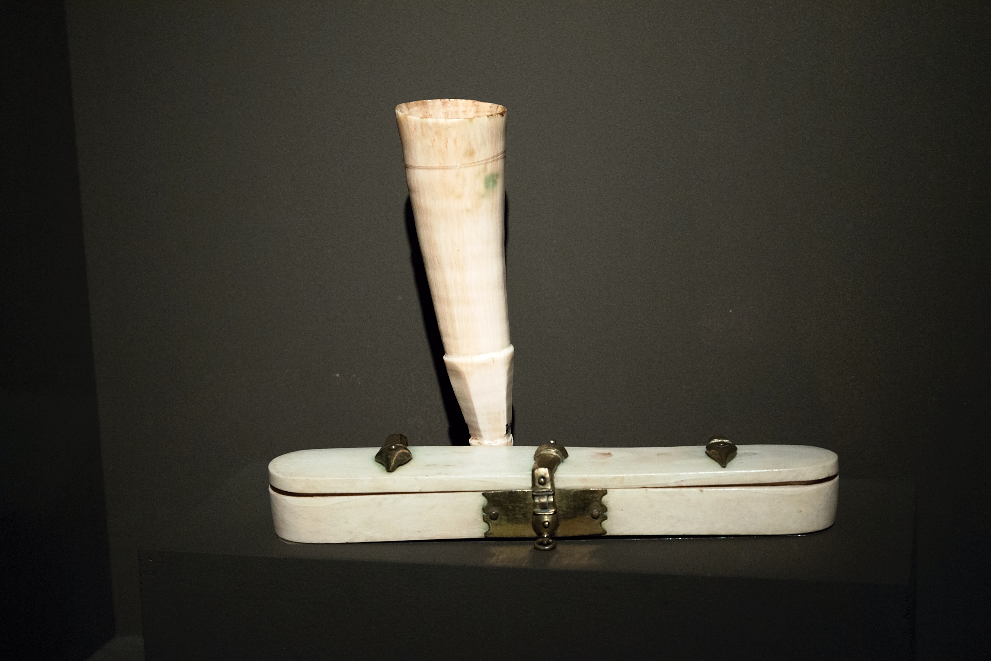 Inkhorn, Rhineland, 9th-11th century, ivory, Cologne, Museum Schnütgen, Inv. No. B 95. The ivory case for writing tools, Sicily, 12th-13th century, ivory, bronze, gilding, Cologne, Museum Schnütgen, B 10.